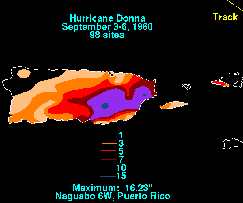 Storm total rainfall map of Hurricane Donna in Puerto Rico during September 1960.